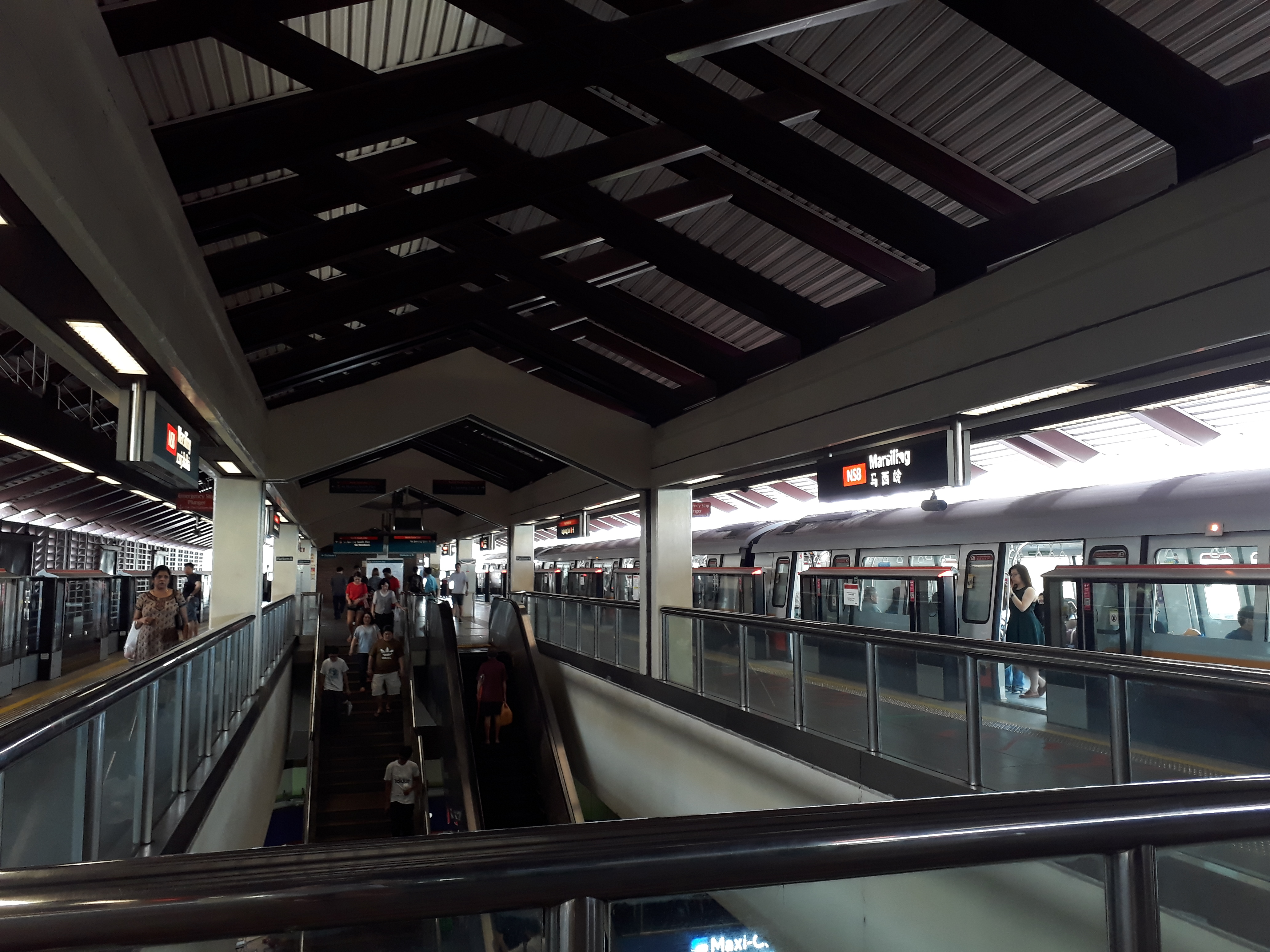 Platform Level of Marsiling